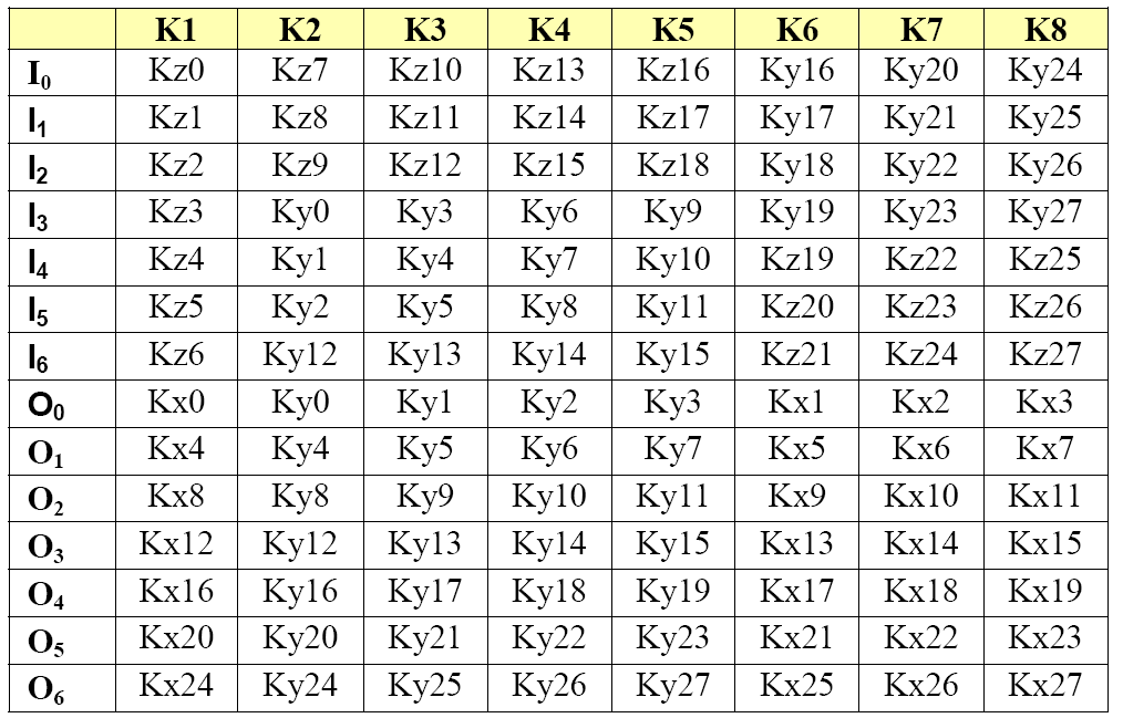 K_round_input_and_output_function in hdcp cipher